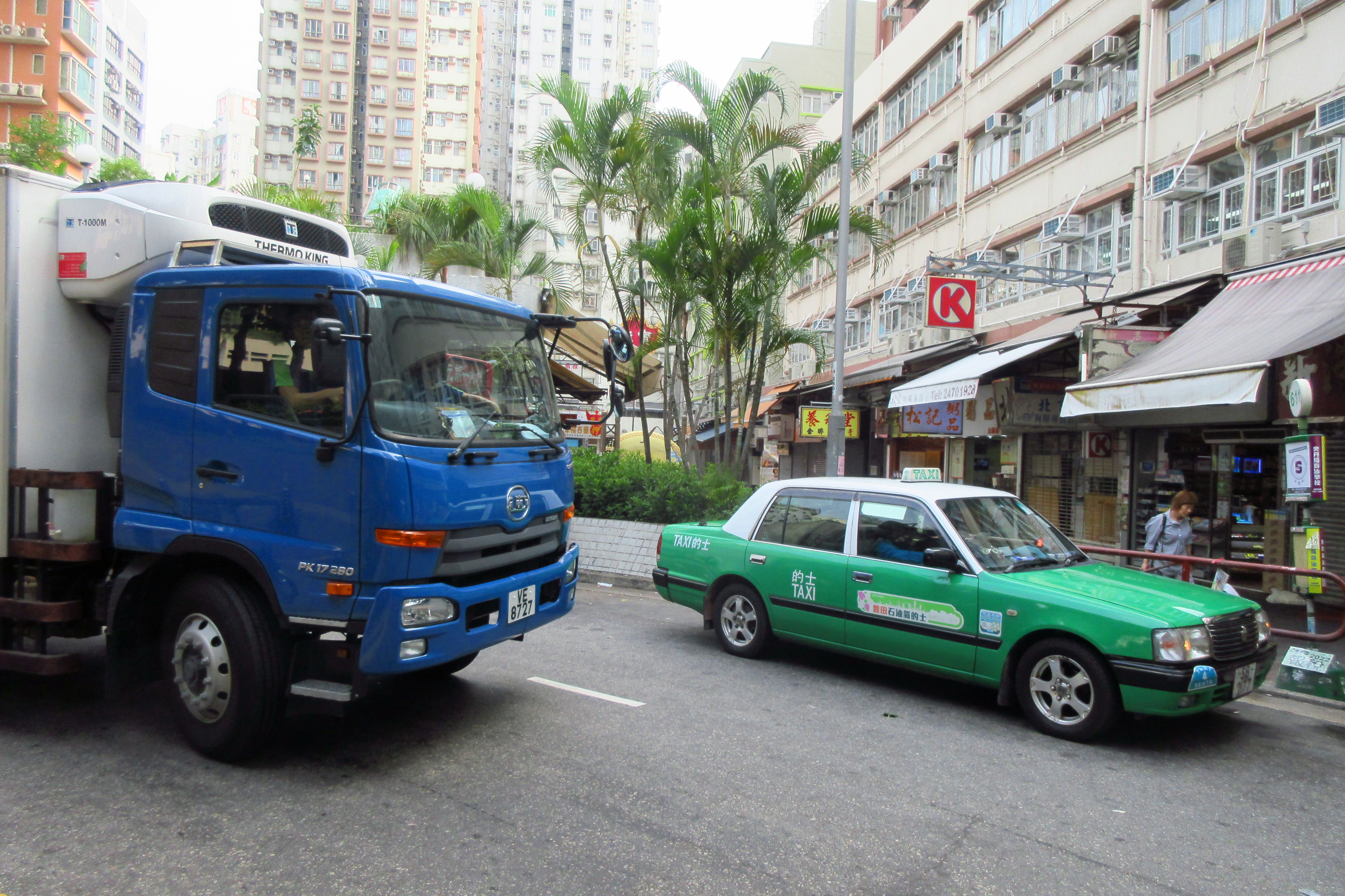 HK YL 元朗 Yuen Long 又新街 Yau San Street green taxi carpark in June 2018